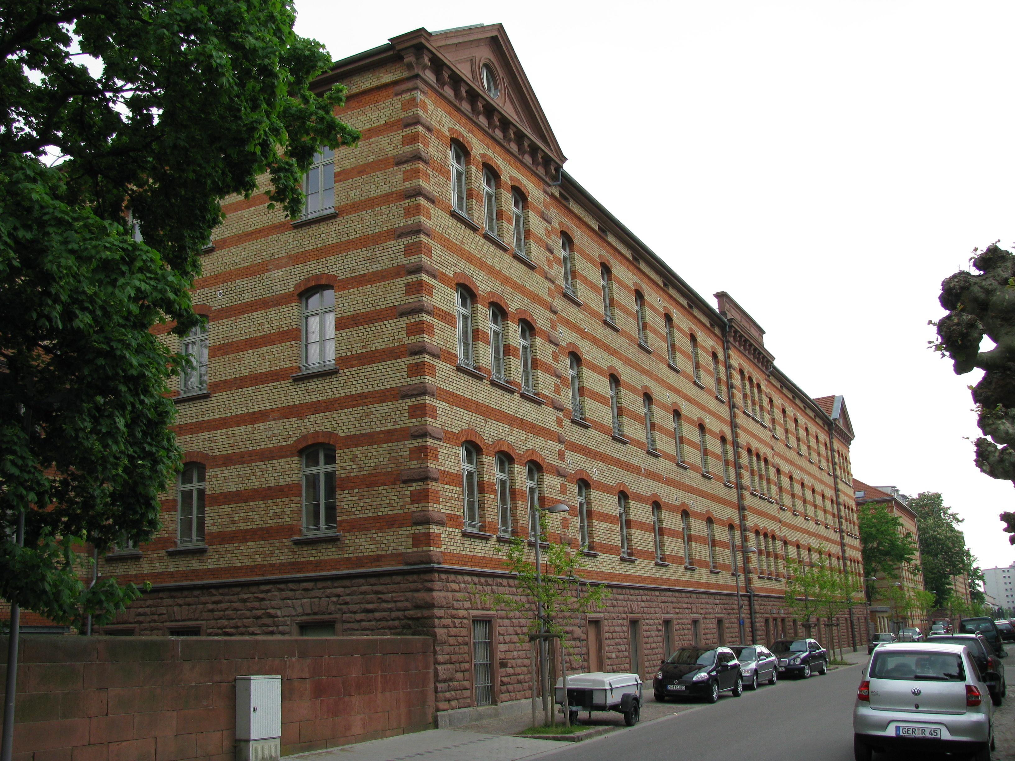 Speyer: former barracks on Diakonissen-/Rulandstrasse, refurbished as apartments (after WWII French Normand Barracks)